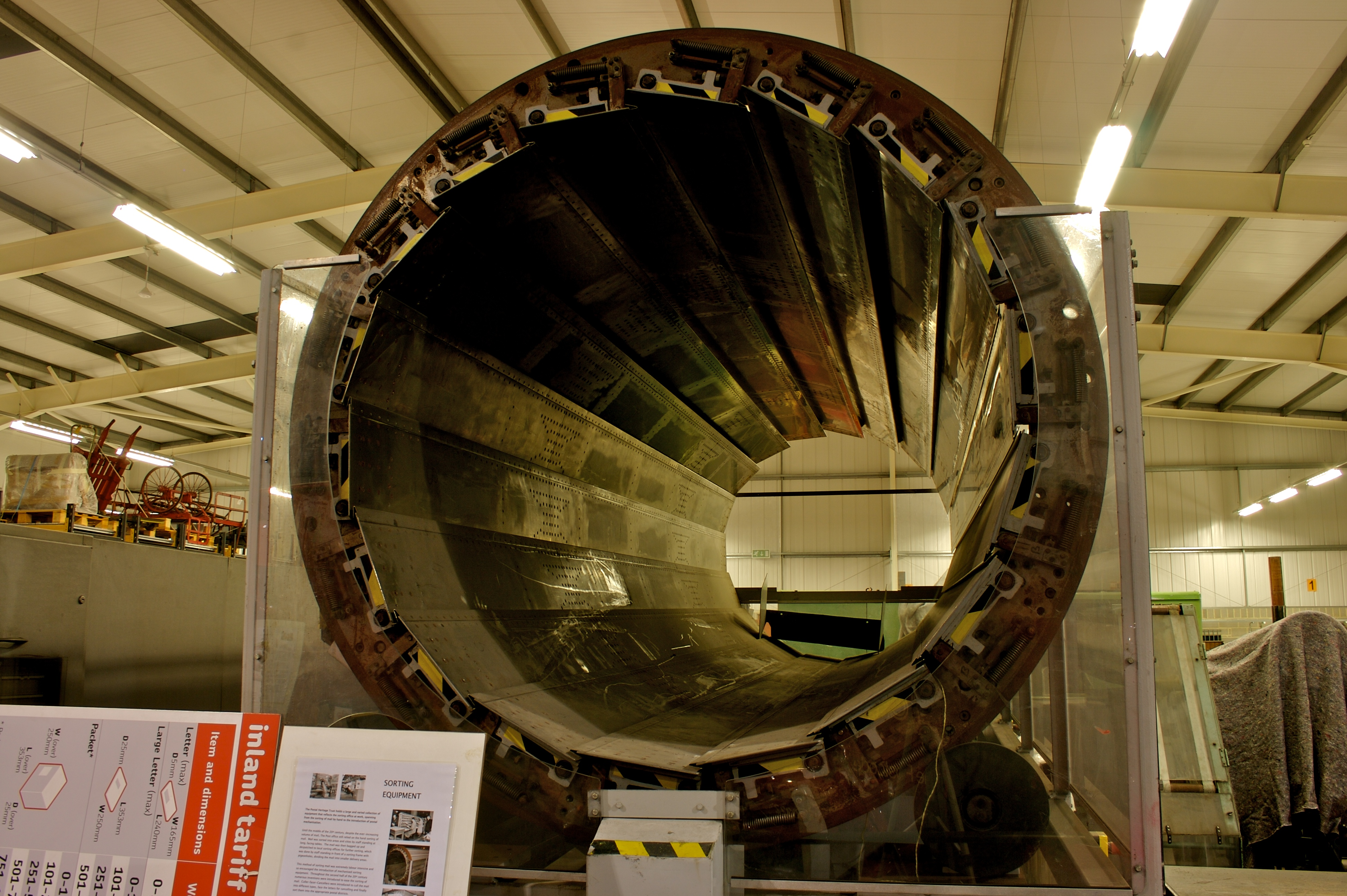 Automated postal sorting equipment, known as the Segragator Drum. Collection ID OB1996.377.